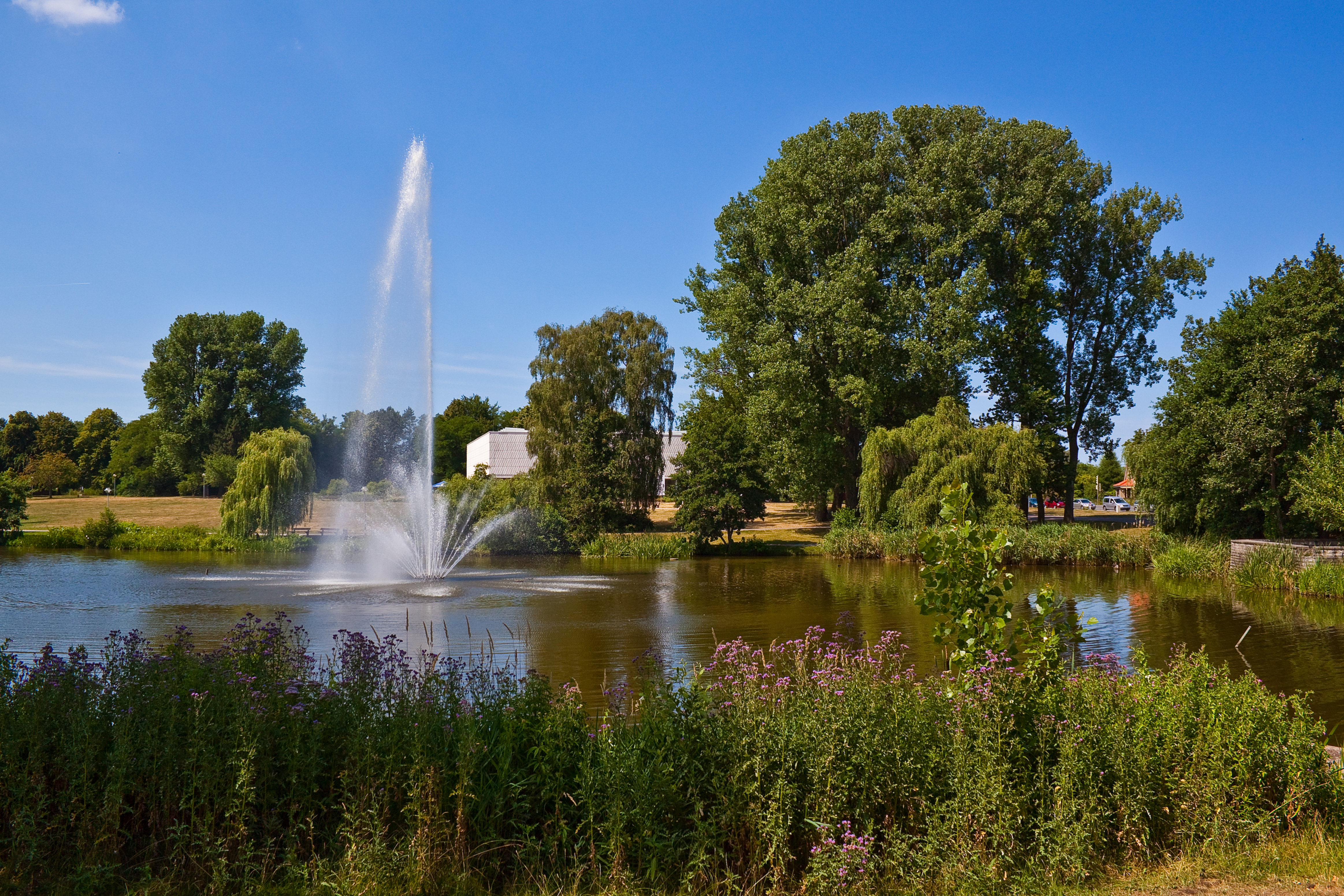 The Schwanenteich (Swan lake) in Rostock-Reutershagen, Mecklenburg-Western Pomerania. The white building in the background represents the art gallery.